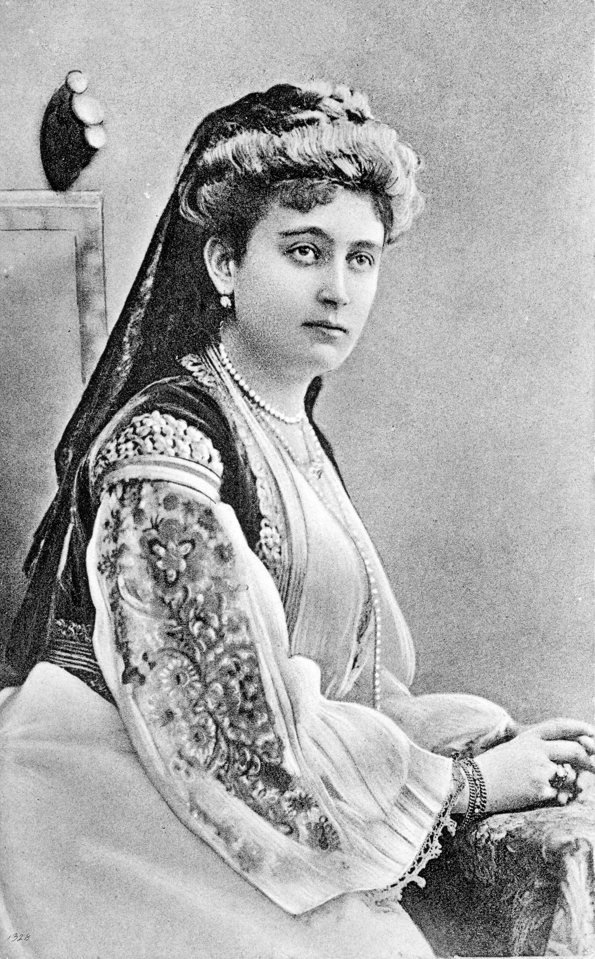 Queen Militza in montenegrin traditional dress